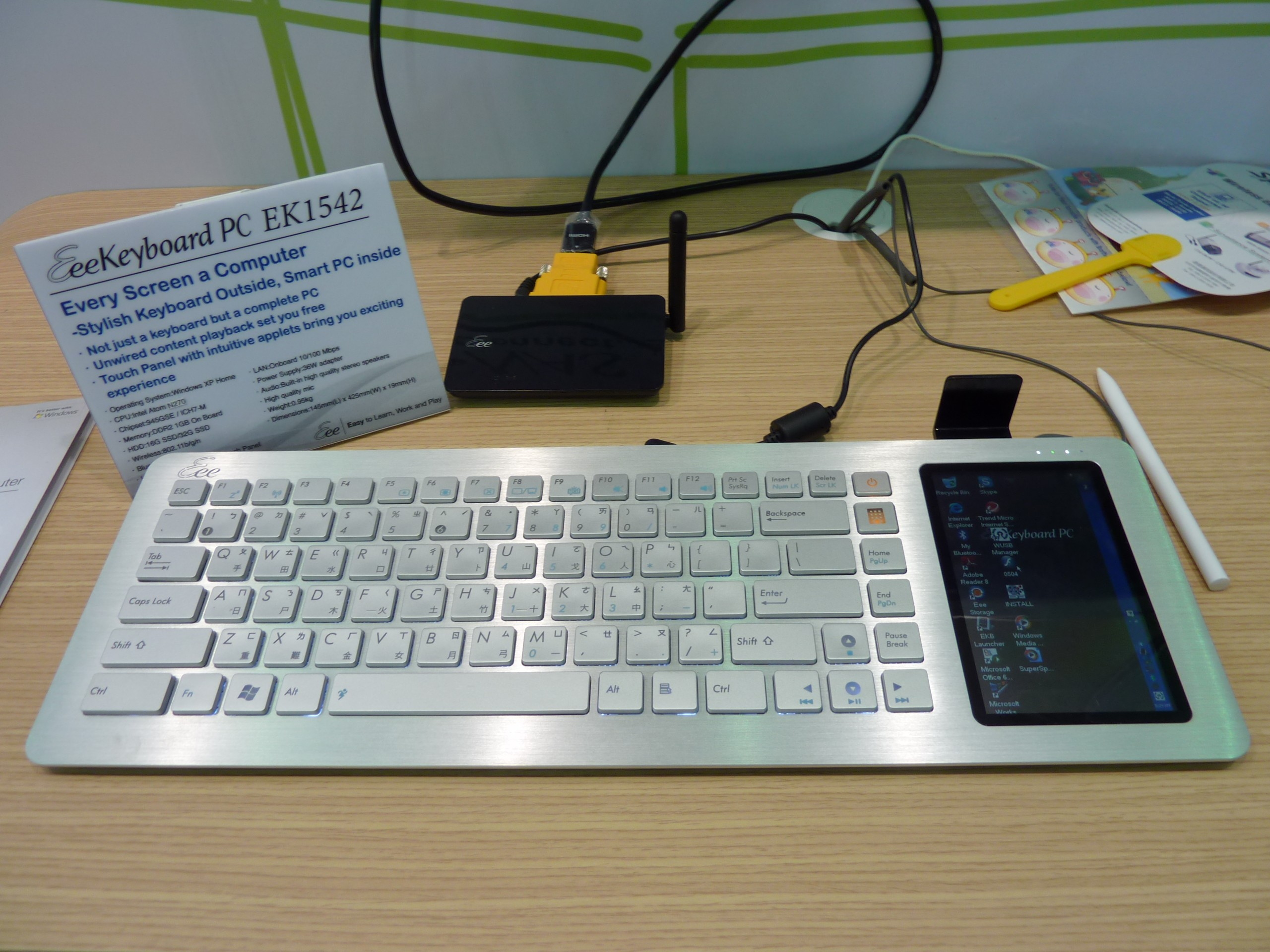 C64 style keyboard PC: Intel Atom N270 Intel 965GSE 1GB DDR2 Ram 16/32GB SSD Windows XP